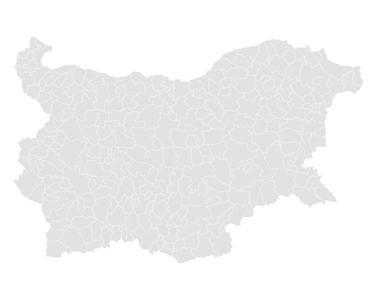 Map of the municipalities of Bulgaria. Created by Rarelibra 13:09, 19 April 2007 (UTC) for public domain use, using MapInfo Professional v8.5 and various mapping resources.